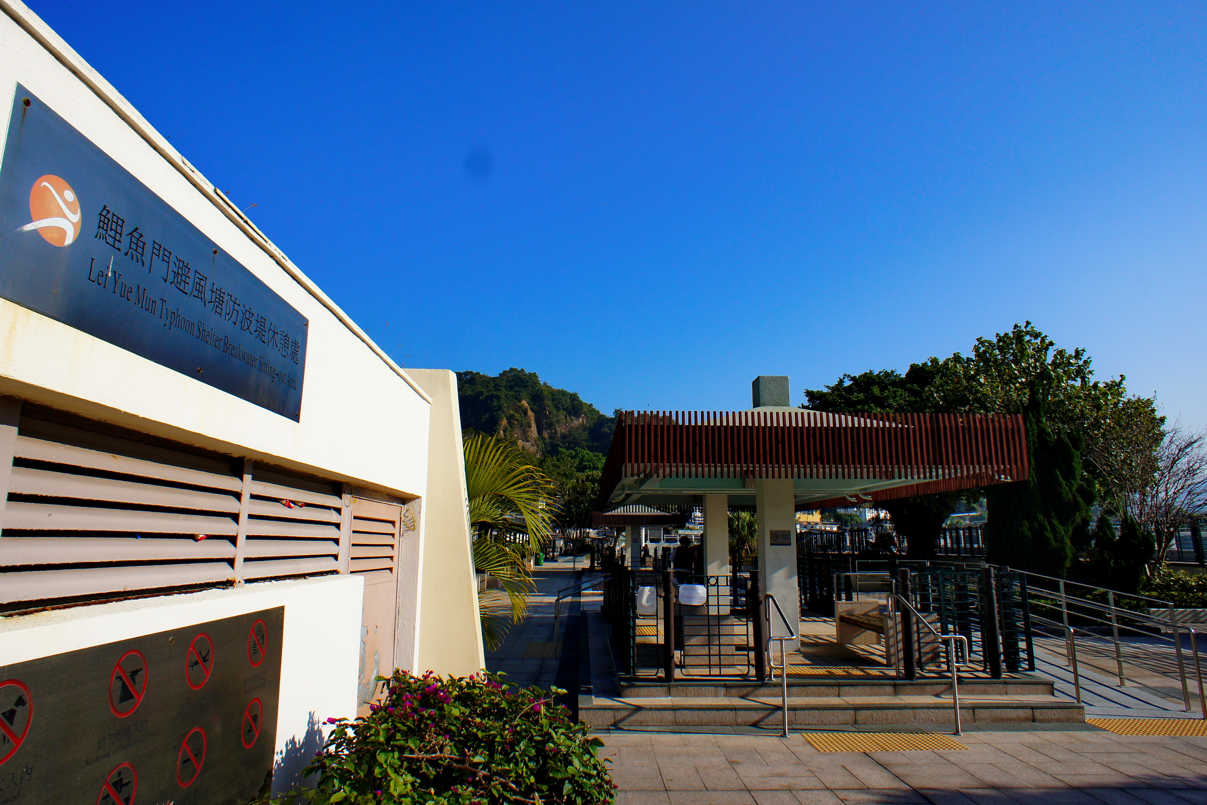 Lei Yue Mun Typhoon Shelter Breakwater Sitting-out Area, Kowloon, Hong Kong.